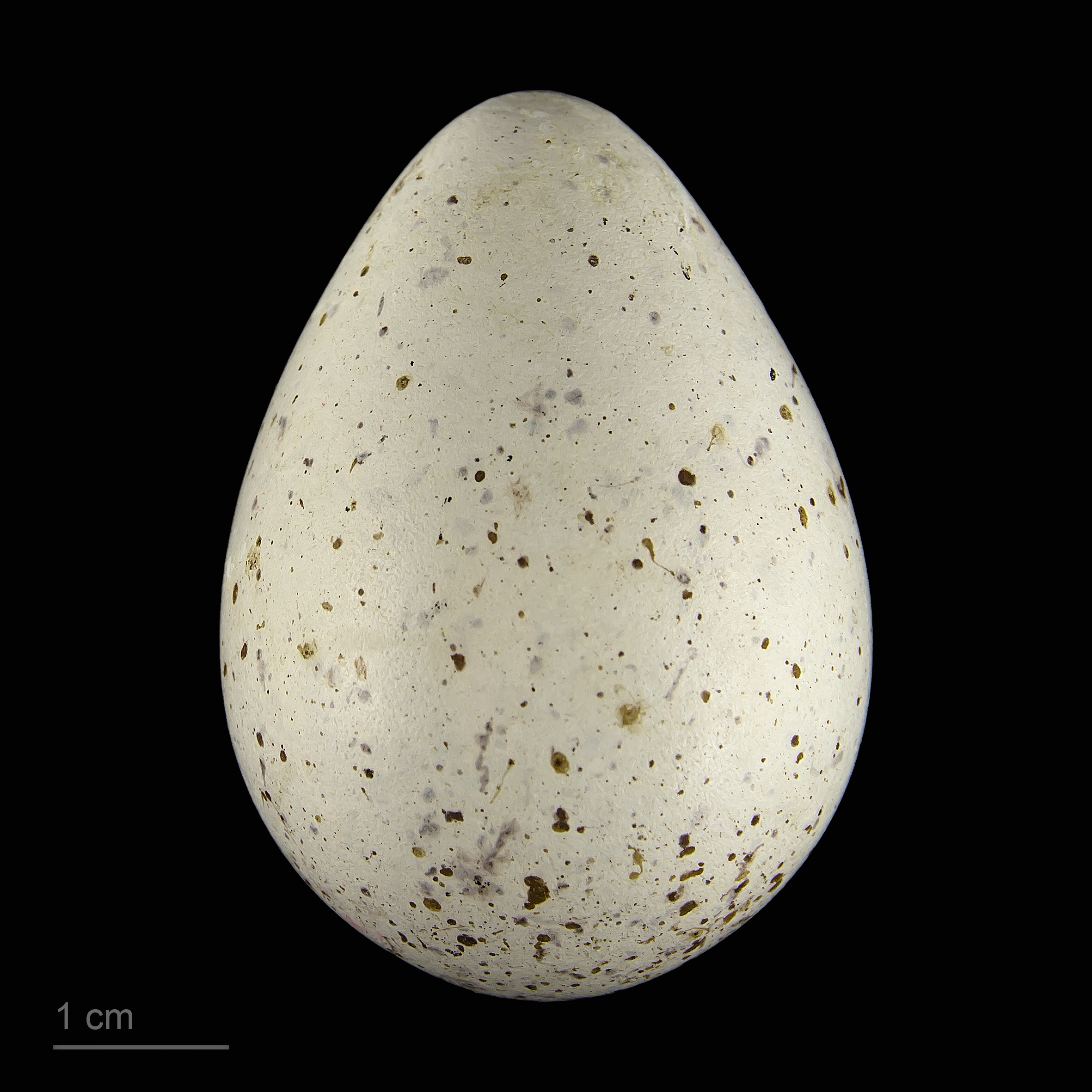 Eggs of ruff collection of Jacques Perrin de Brichambaut.